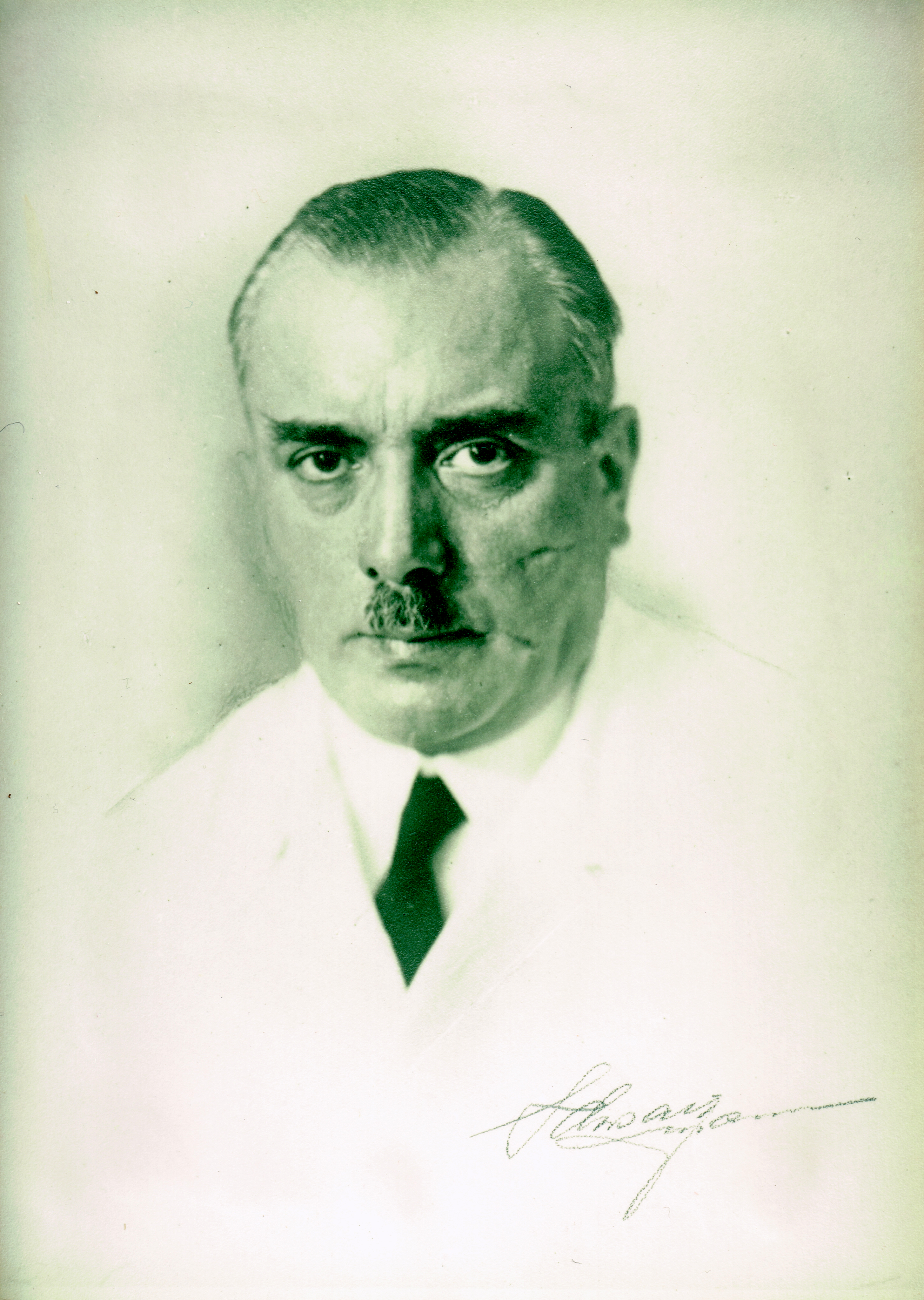 First page of a family copy of "Chirurgische Operationslehre" by Otto Kleinschmidt. The picture is of the author.